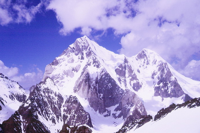 Buni Zom Main and Buni Zom North, photo taken from the west face of Gordoghan Zom, 2002 Summary Buni Zom Main and Buni Zom North, photo taken from the west face of Gordoghan Zom, 2002